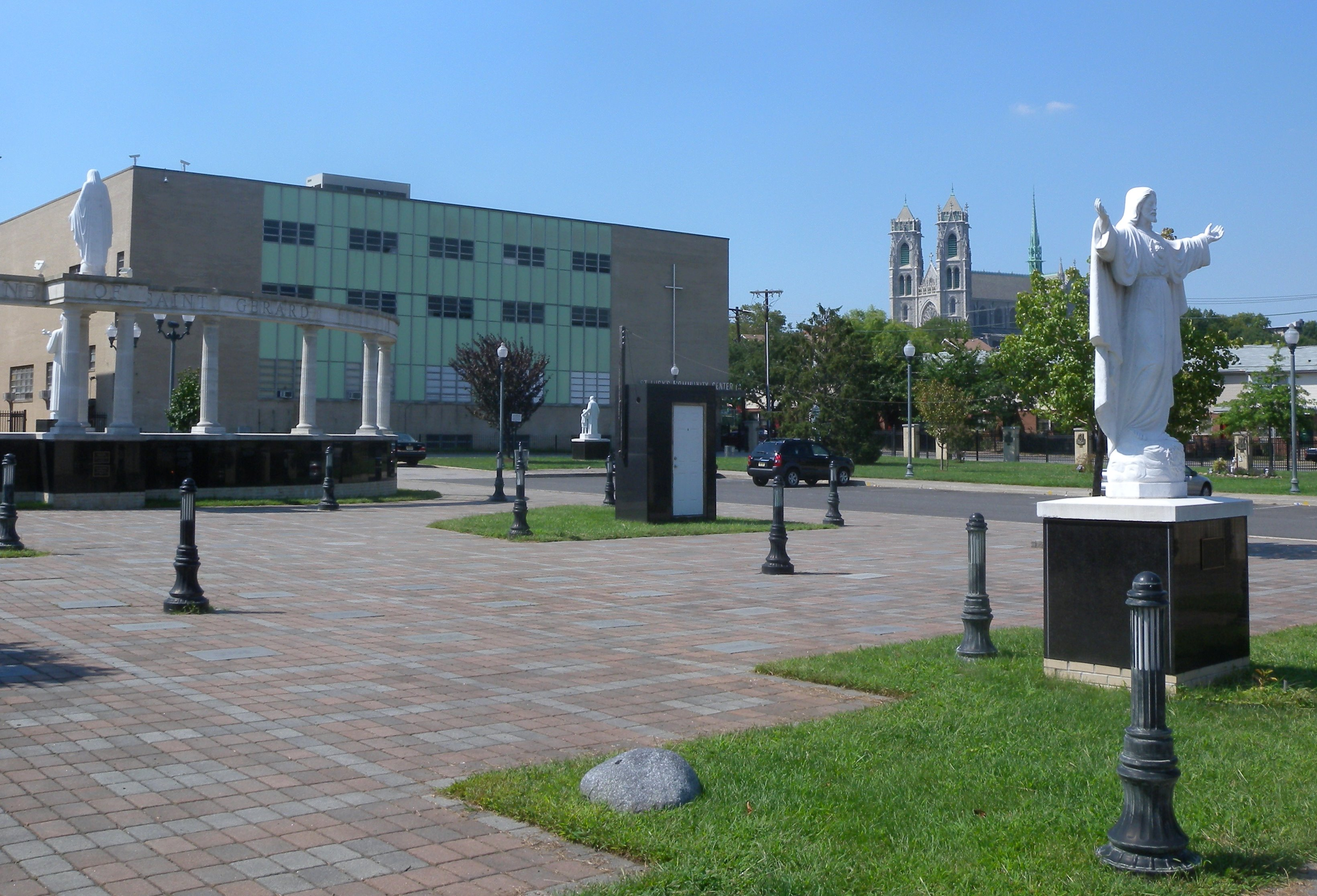 Looking northwest at Shrine of St Gerard on a sunny early afternoon. School of File:Lucy RCC Newark jeh.jpg is in background left and Sacred Heart Basilica in distance right.